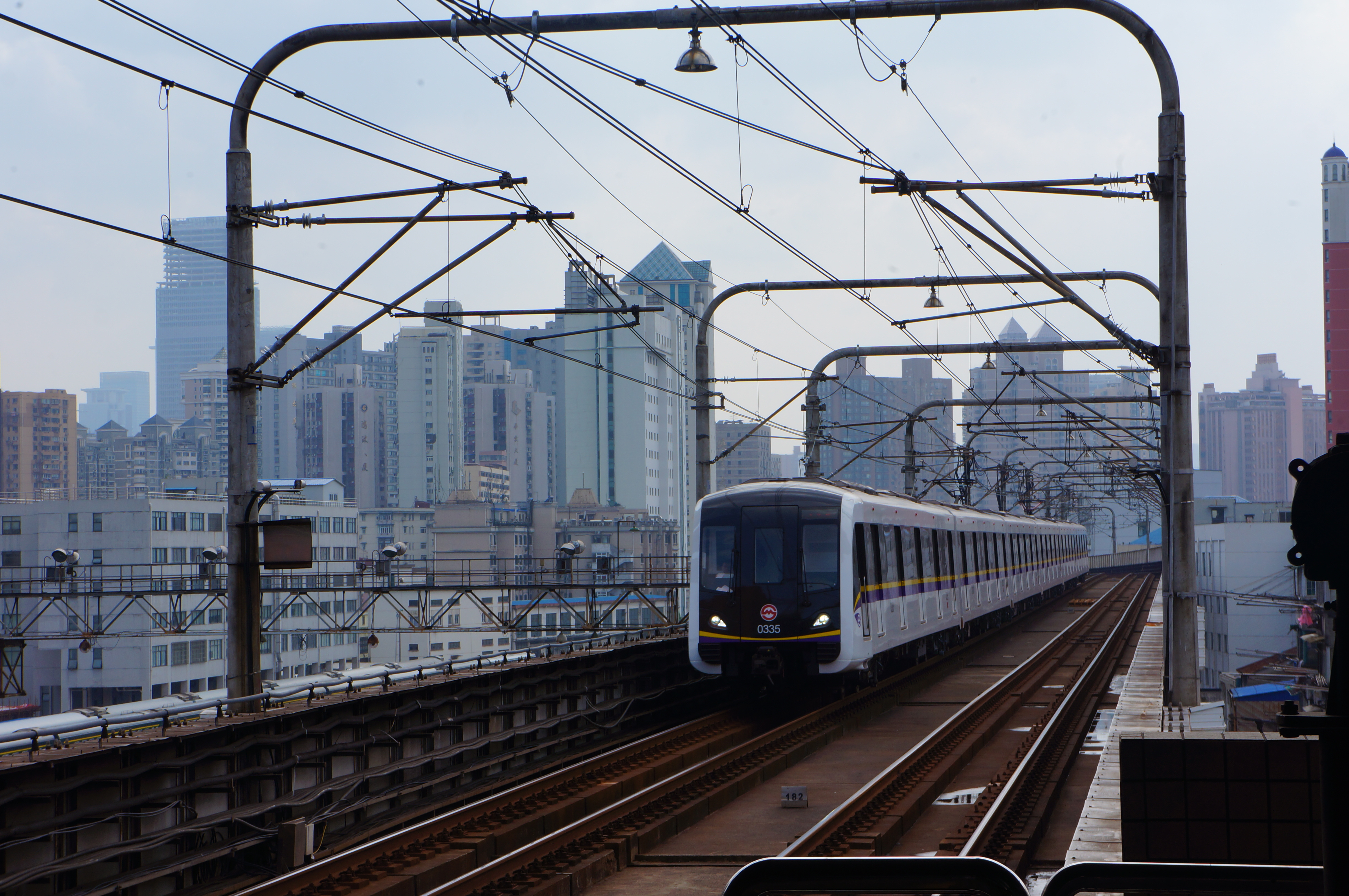 201609 0335 leaves from Baoshan Road Station